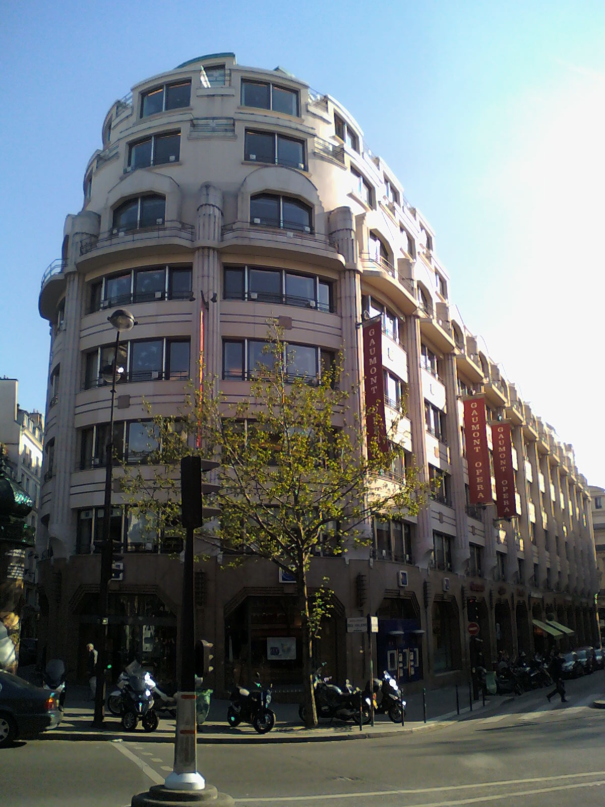 Palais Berlitz in Paris